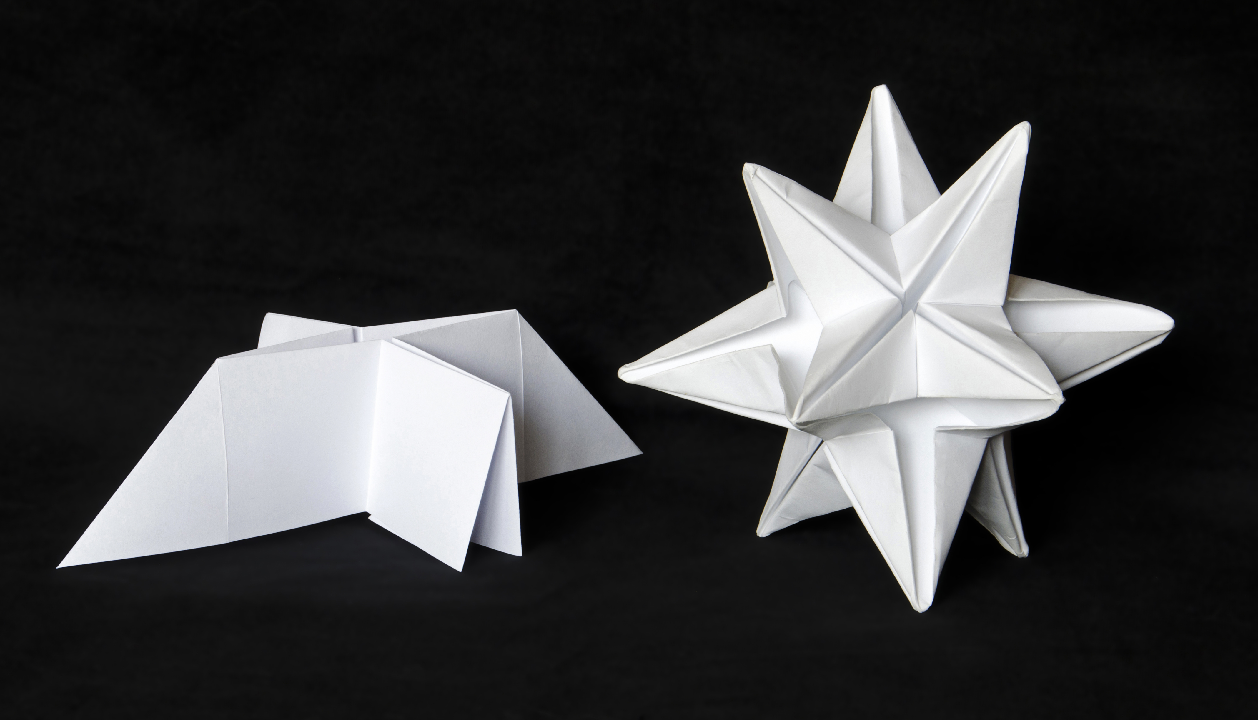 Modular origami, left visible single module